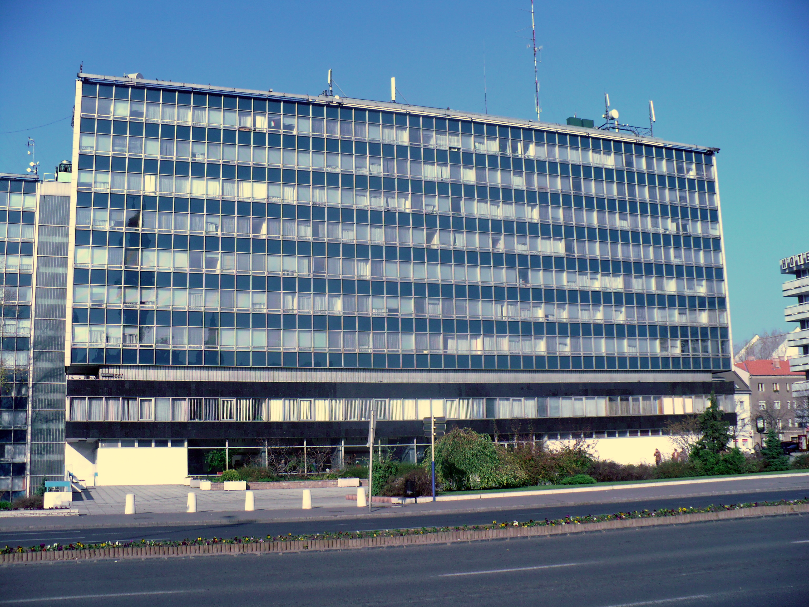 House of Győr County